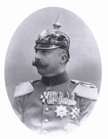 Frederick II (19 August 1856 - 22 April 1918) Duke of Anhalt (1904-1918)